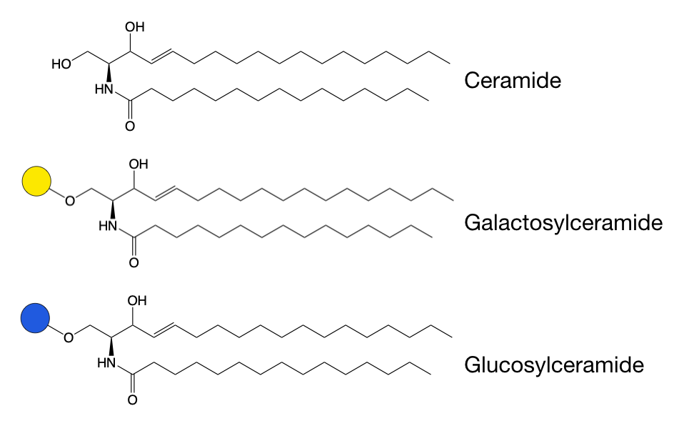 Structure of ceramide lipid, as well as galactosylceramide and glucosylceramide formed by the addition of galactose or glucose sugars to a hydroxyl group on the lipid.